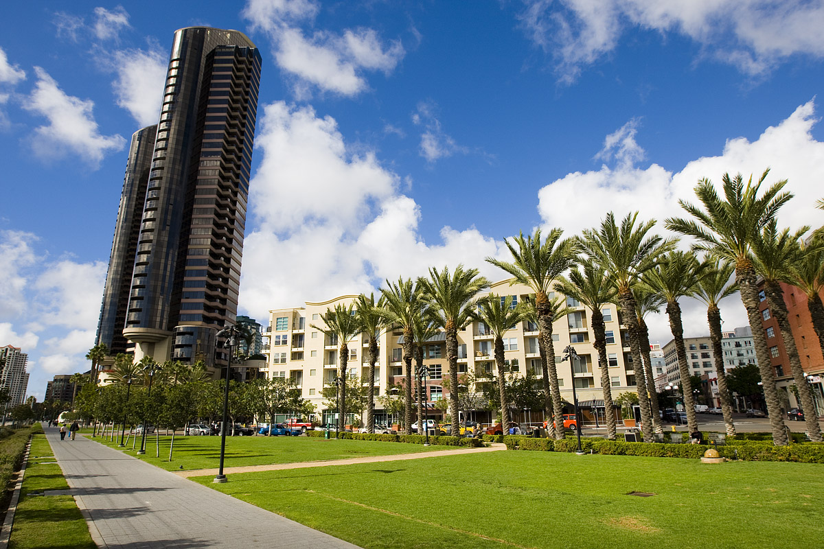 Martin Luther King Promenade in San Diego, California. The towers in the back are the Harbor Club.